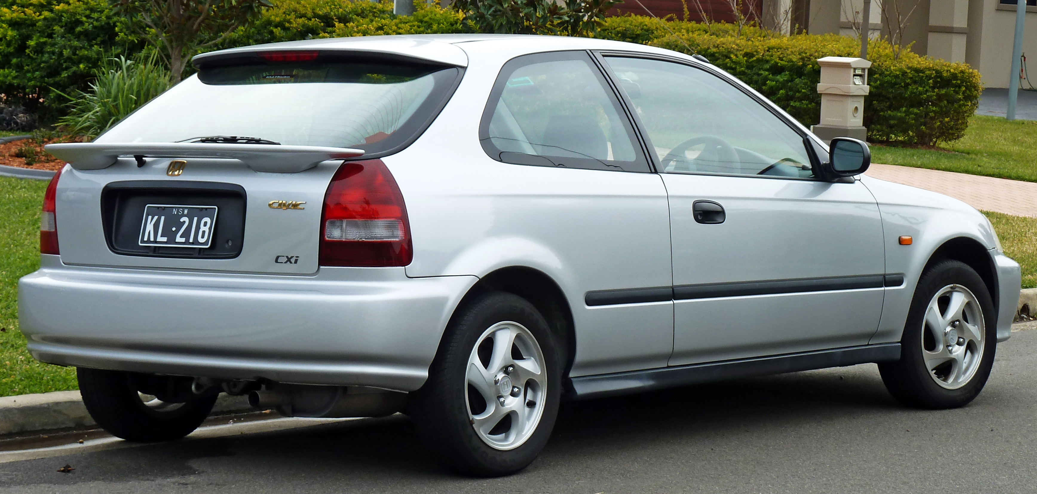 1998–2000 Honda Civic CXi 3-door hatchback. Photographed in Sylvania Waters, New South Wales, Australia.